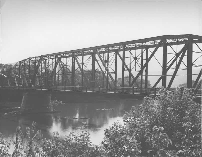 Side of the Bridge in Athens Township, which carries Legislative Route 08081 over the Susquehanna River in Athens and Athens Township, Bradford County, Pennsylvania, United States. Built in 1913, the bridge was listed on the National Register of Historic Places in 1988, but it was delisted in 2012.